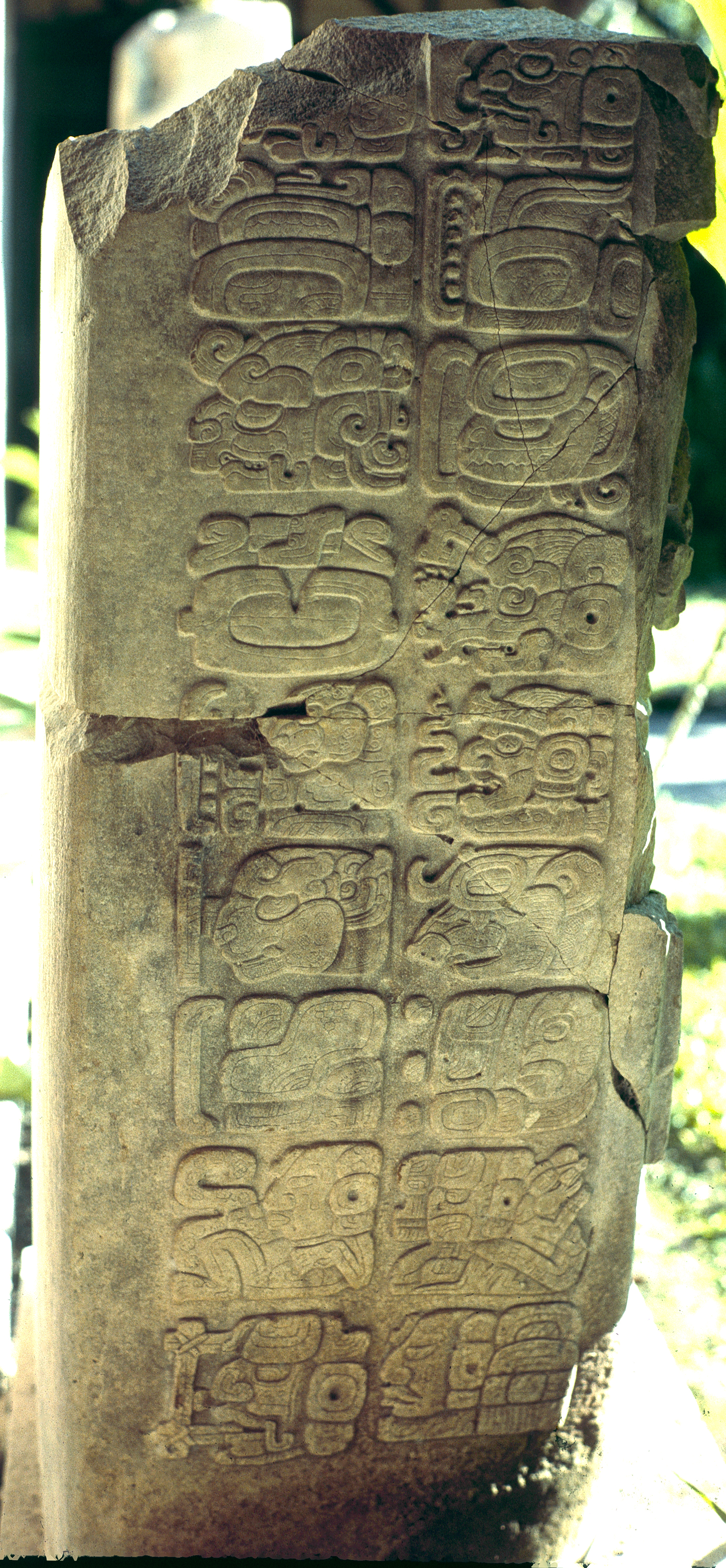 Tikal, Guatemala: Stela 26